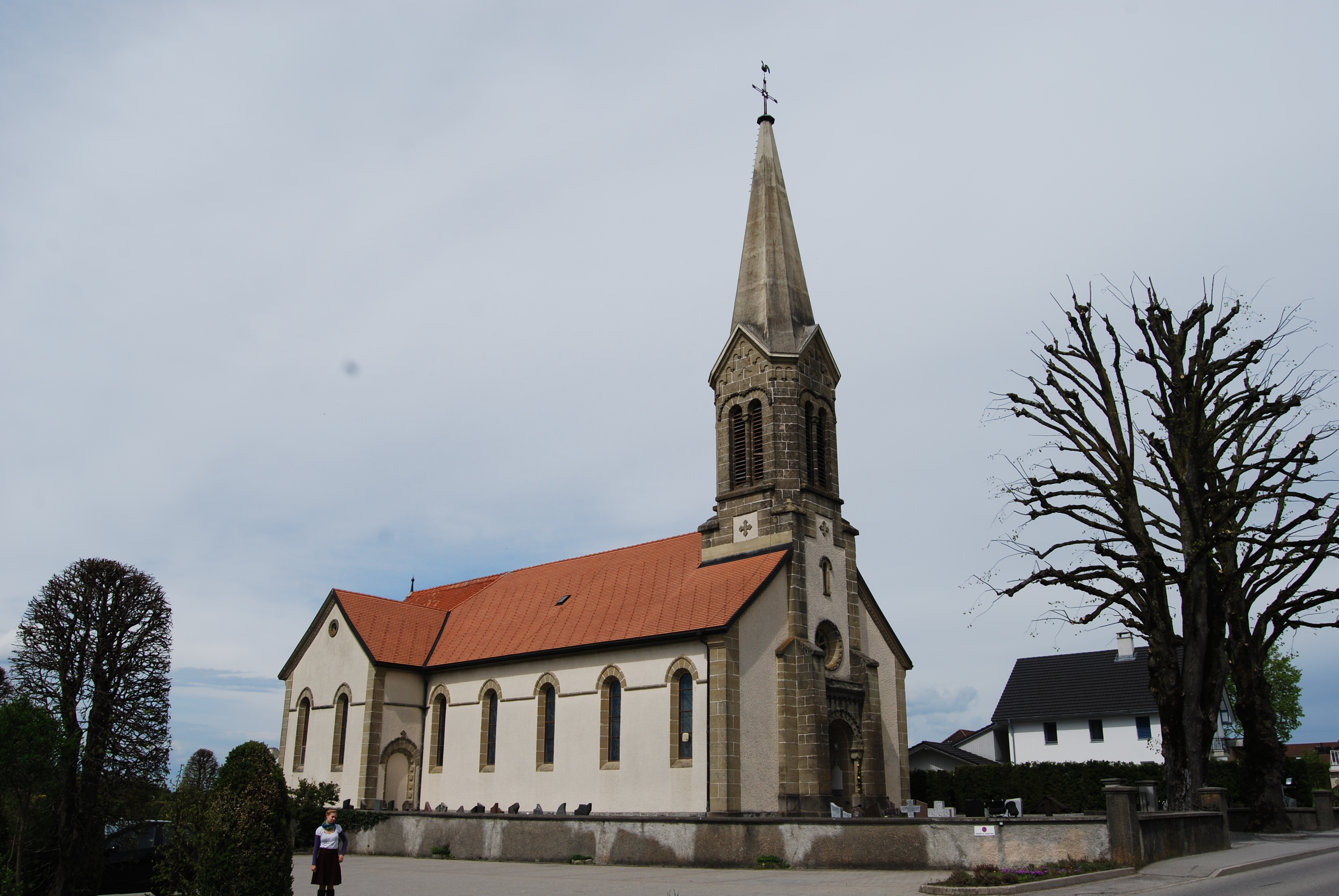 Catholic Church of Rossens, canton of Fribourg, Switzerland